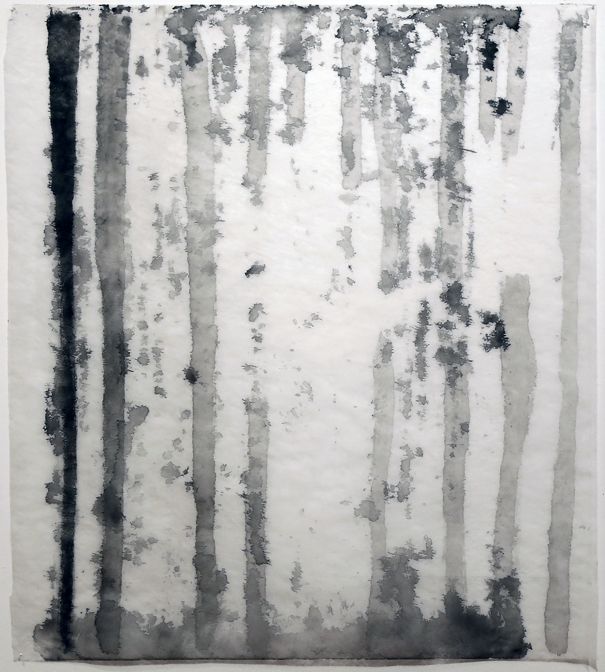 Lutradur Painting 18, 2018, Paint on Lutradur, 44" x 39.5" by Stephanie Bernheim